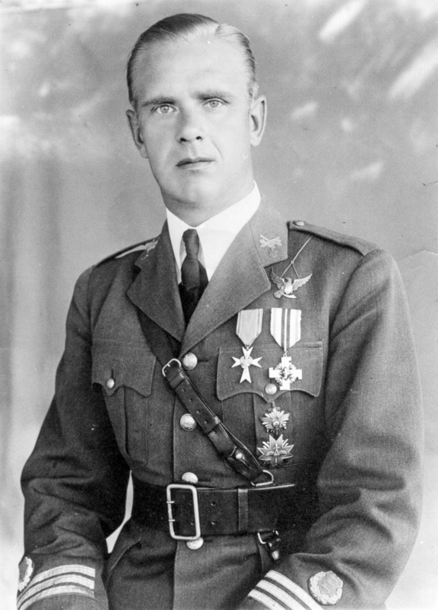 Alfons Rebane in Estonian Uniform